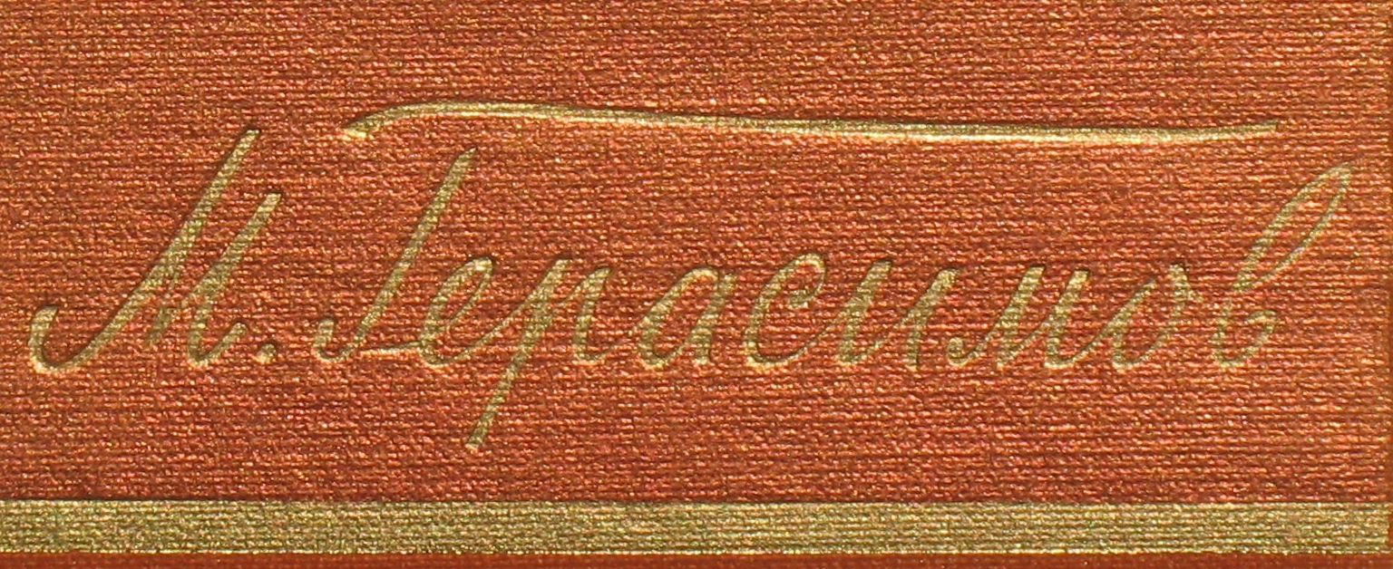 Soviet poet M. Gerasimov signature on his book.